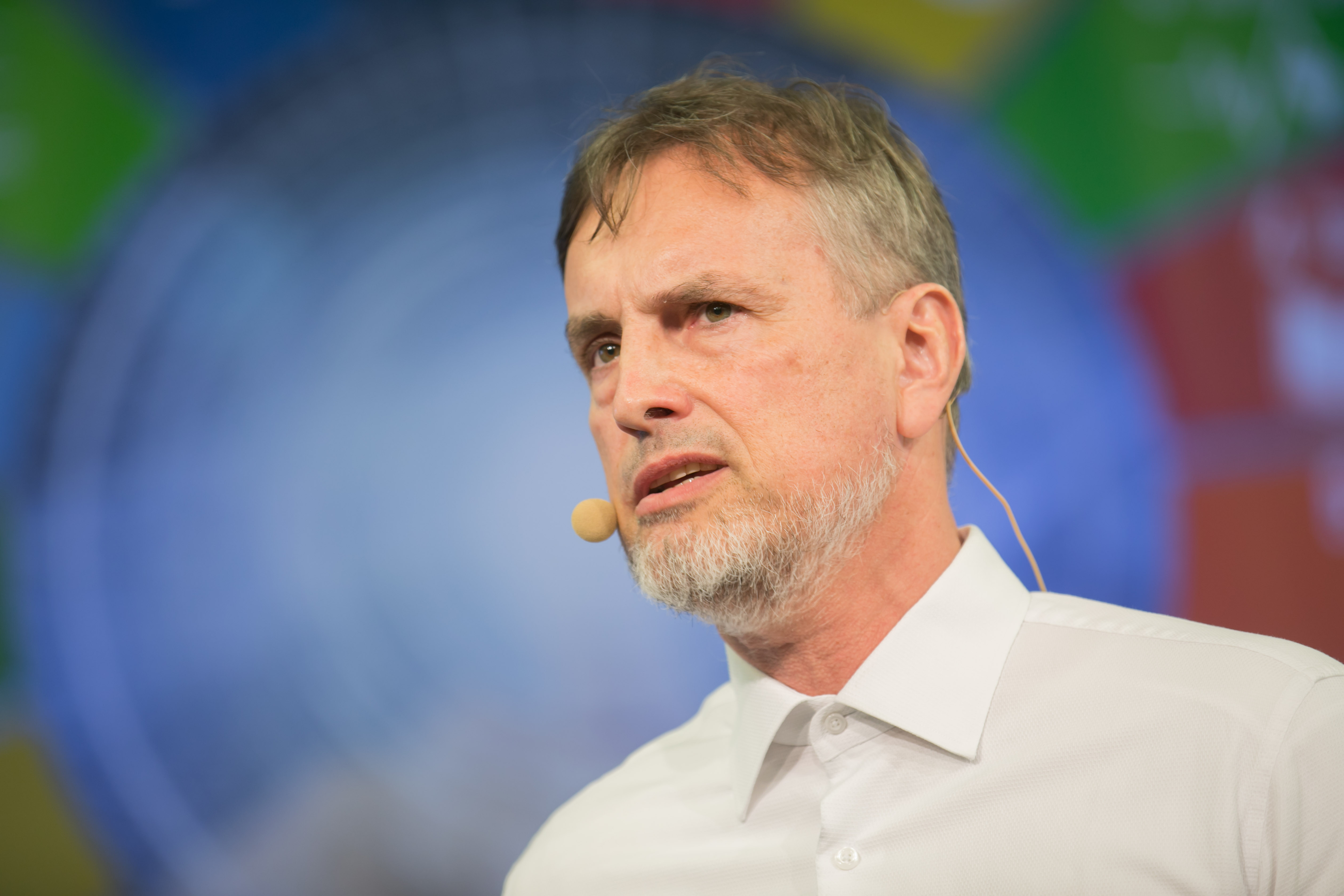 Jürgen Schmidhuber, Scientific Director, Swiss AI Lab, speaking at the AI for GOOD Global Summit, at ITU, Geneva, Switzerland, 7 - 9 June, 2017.